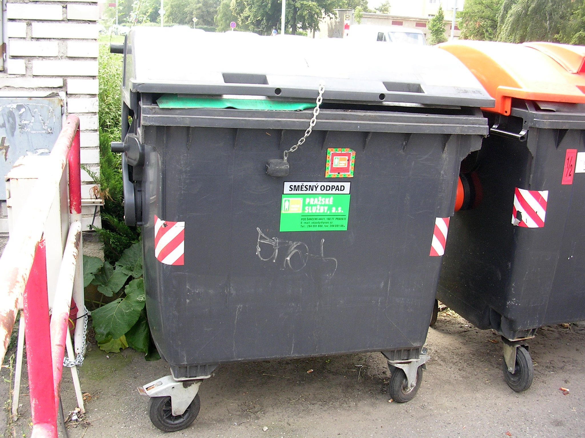 Záběhlice, Prague, the Czech Republic. Sorted waste containers. Mixed waste container.